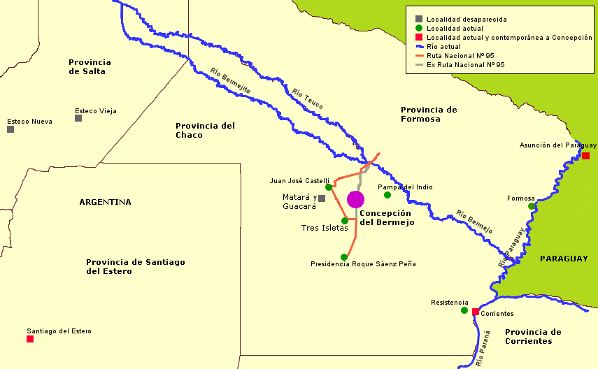 A map showing Concepción del Bermejo. Political division and rivers correspond to current shape, but there are some old cities and some dead cities.